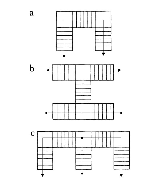 Development of types of staircases